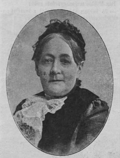 Emília Kánya, wife of Szegfi Mór